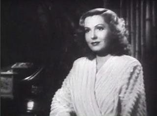 Cropped screenshot of Jean Arthur from the trailer for the film Only Angels Have Wings. Arthur is wearing a costume designed by costume designer Robert Kalloch.